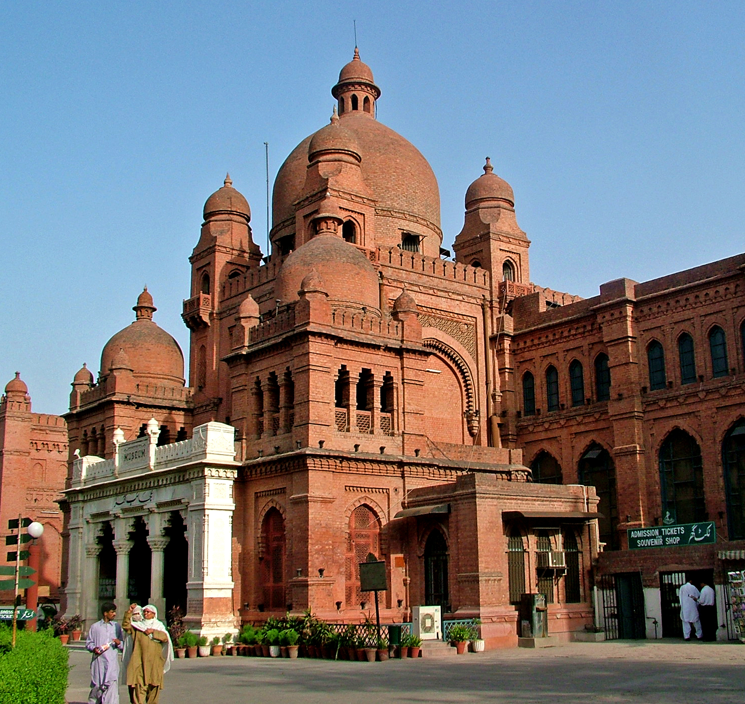 The Lahore Museum, also knwn as Central Museum was built in 1894 in Lahore. Rudyard Kipling's father John Lockwood Kipling, was one of the famous curators of the museum.